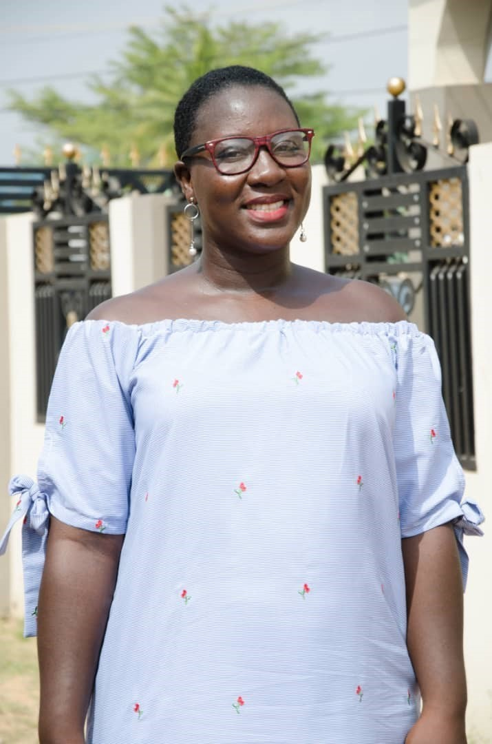 Profile Picture Alice Mamaga Akosua Amoako